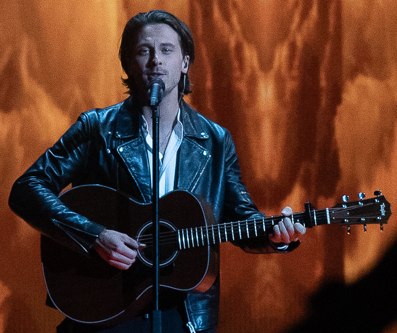 At the 2019 Eurovision Song Contest Semi-final 1 dress rehearsal